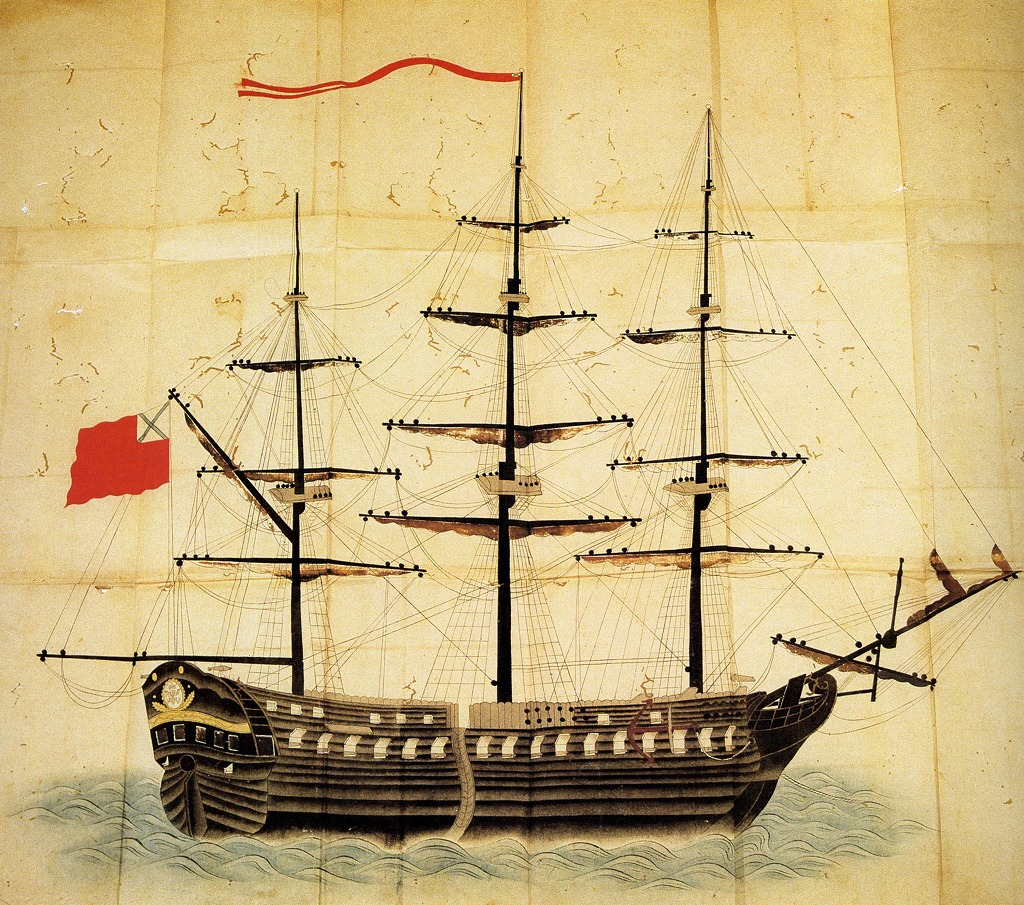 The sloop Diana during Vasily Golovnins journey